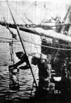 Kolchak on Zarya